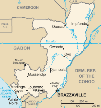 Map of the Republic of the Congo